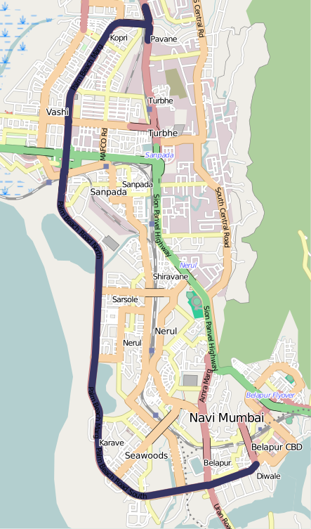 Map of Palm Beach Road in Navi Mumbai, India. Created using OpenStreetMaps